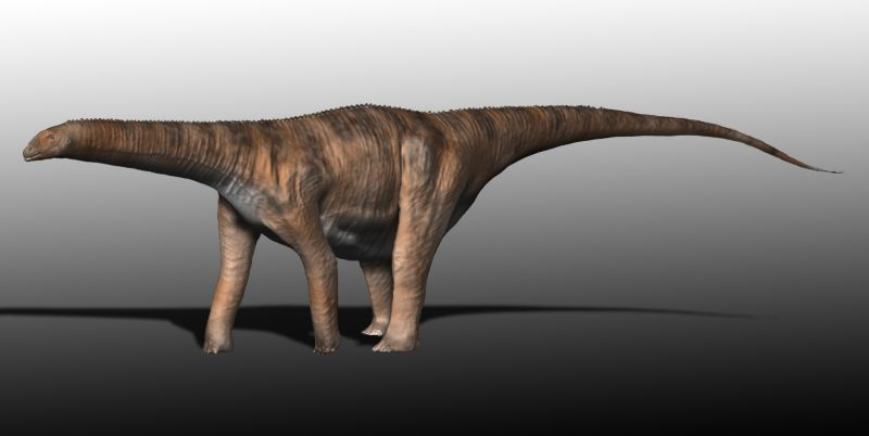 Cetiosaurus oxoniensis, middle Jurassic of England. Digital.